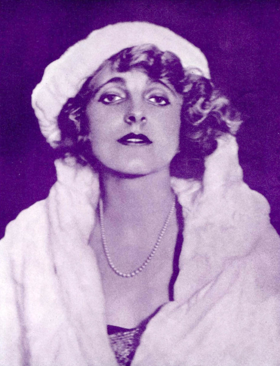 Rubye De Remer, Filmplay Journal, August 1921